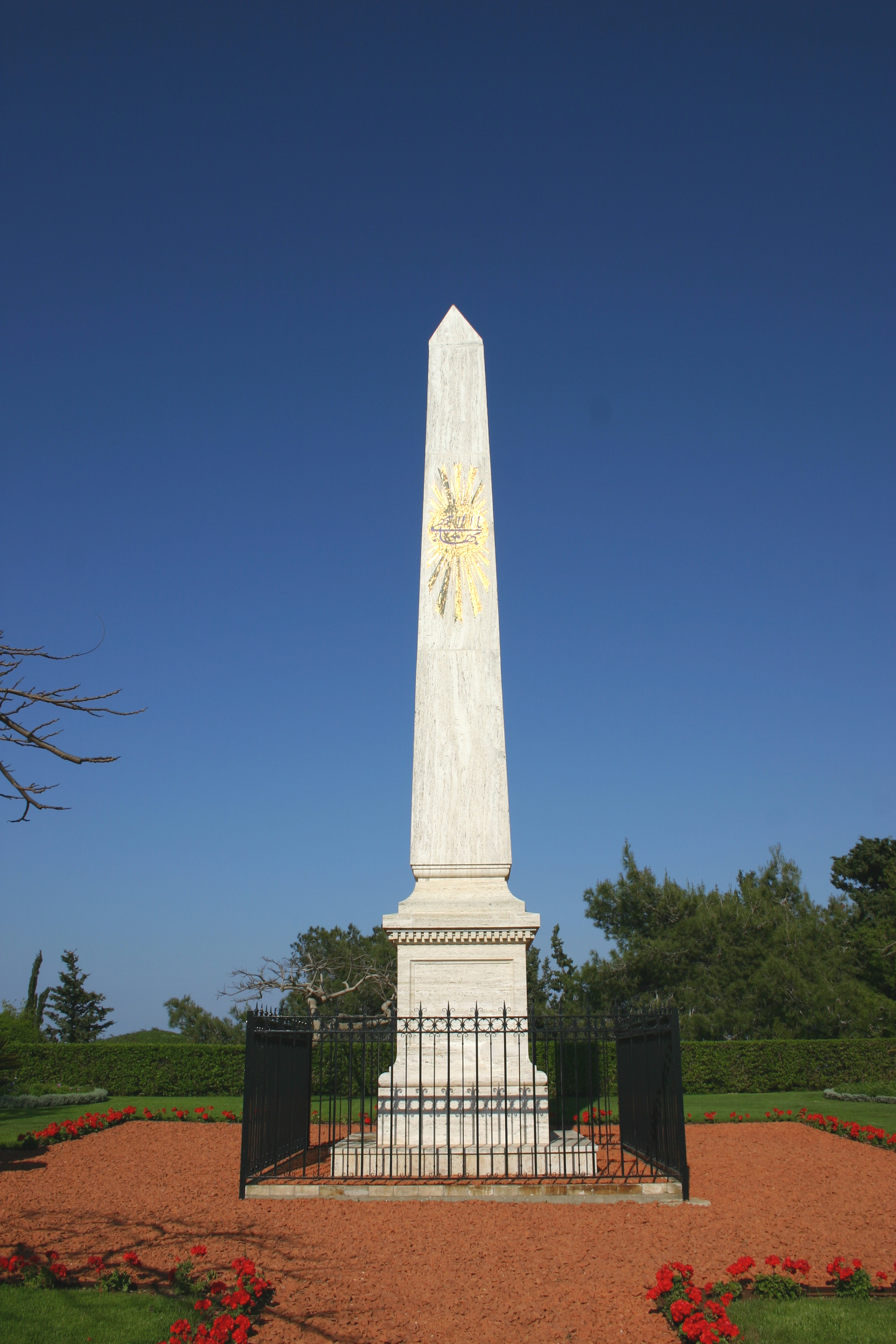 Site of future Bahá'í House of Worship, Mount Carmel, Haifa, Israel